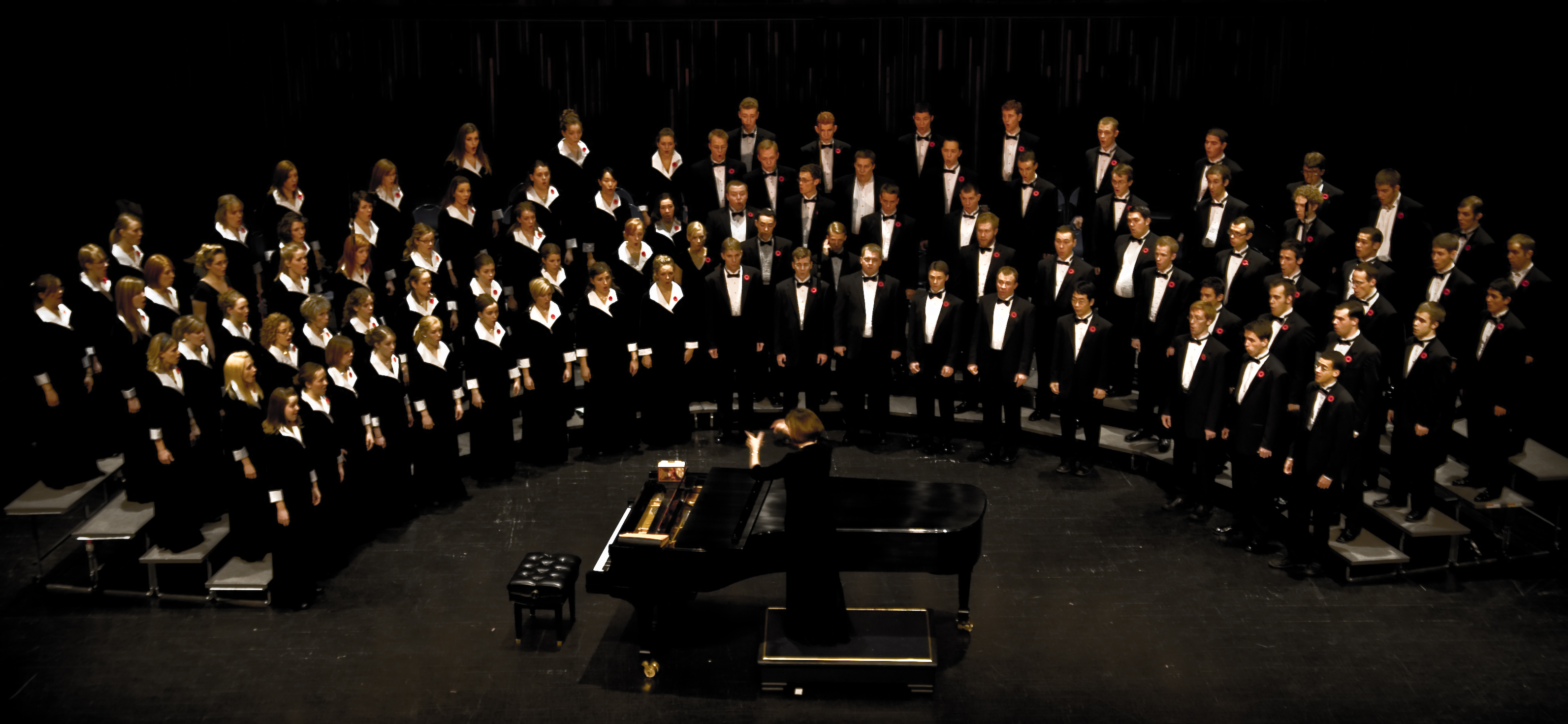 A photo of BYU Concert Choir in rehearsal